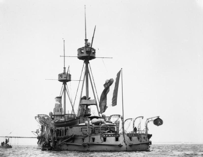 Symonds and Co Collection REQUIN (1885) at anchor, 1892.